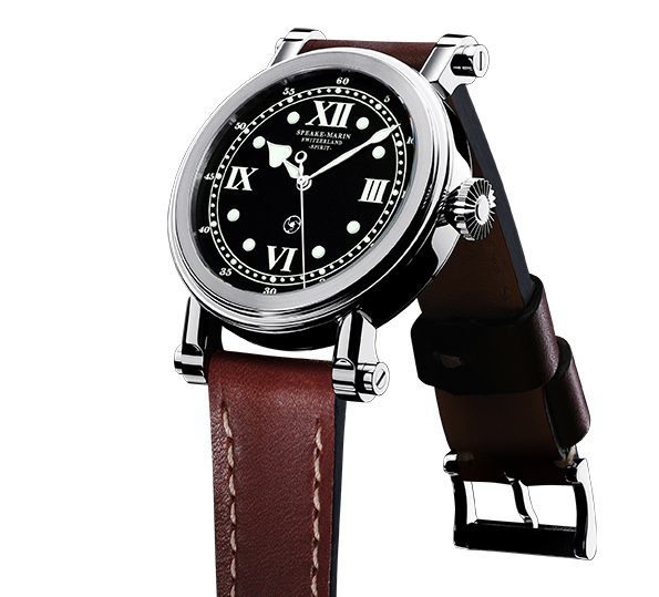 The Spirit MkII by Speake-Marin features a long 5-day power reserve and caseback engraved with the Spirit motto,"Fight, Love & Persevere”. For more information, please visit